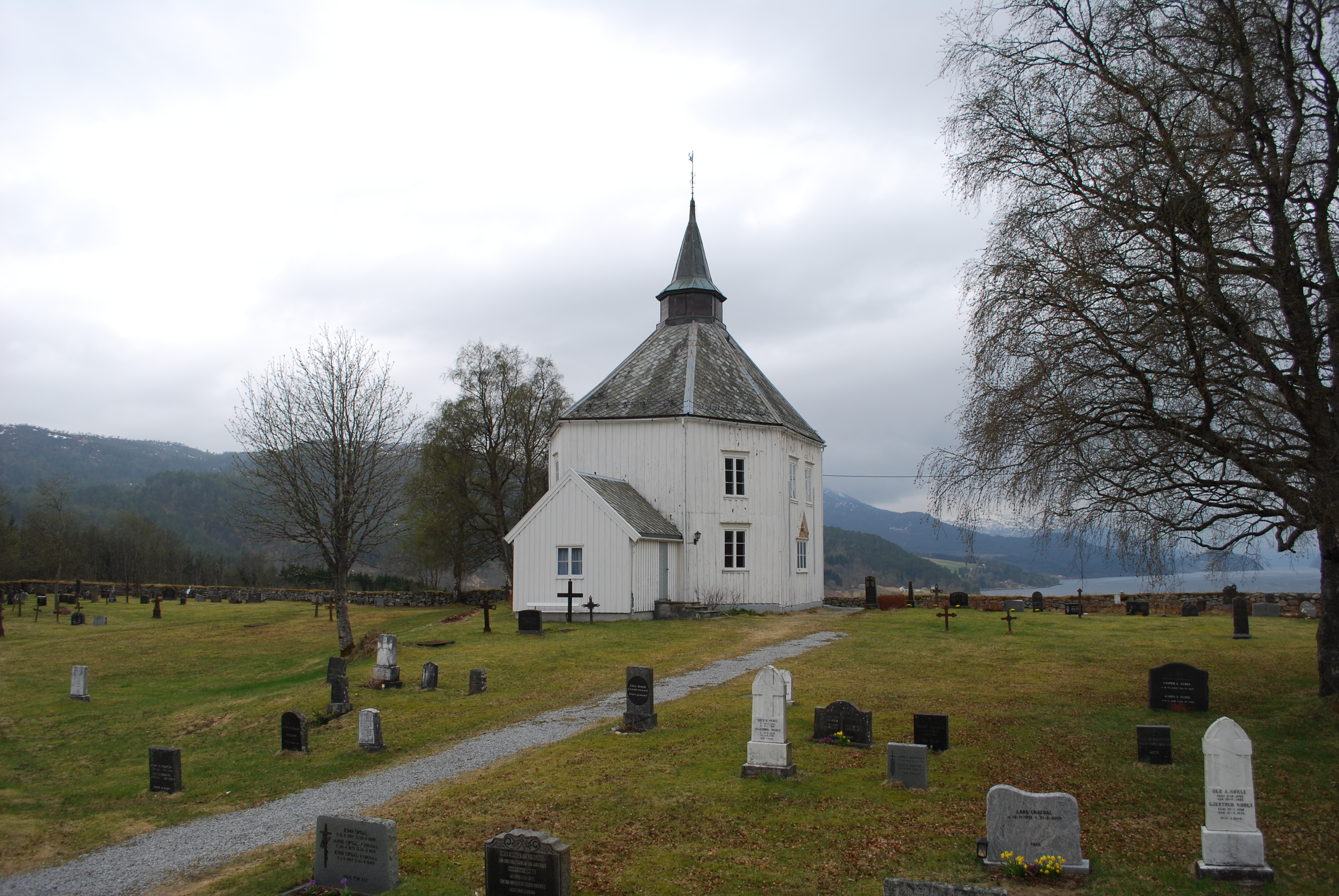 Vinje kirke in Hemne, Sør-Trøndelag, Norway.